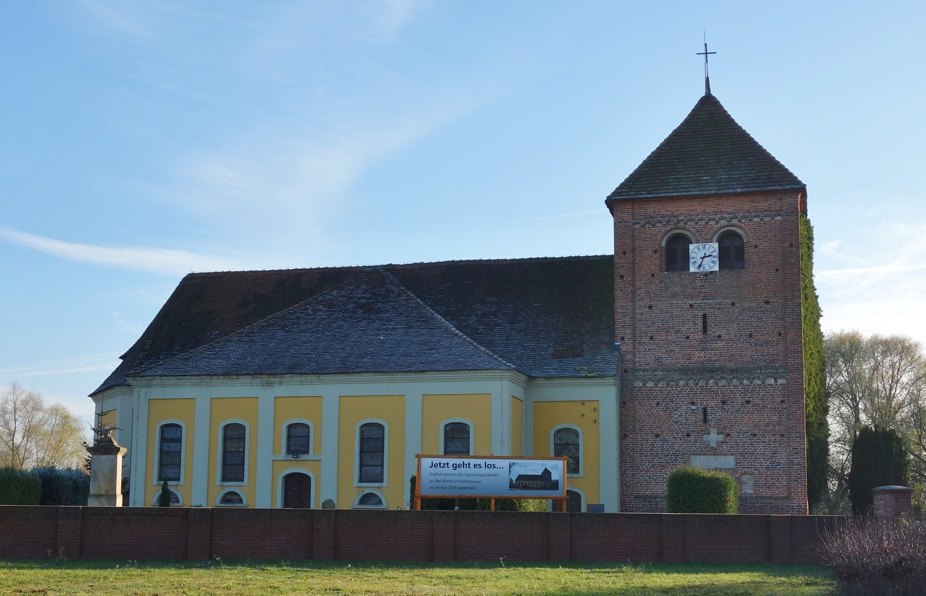 Northern view of church in Hohennauen, Seeblick municipality, Havelland district, Brandenburg state, Germany.